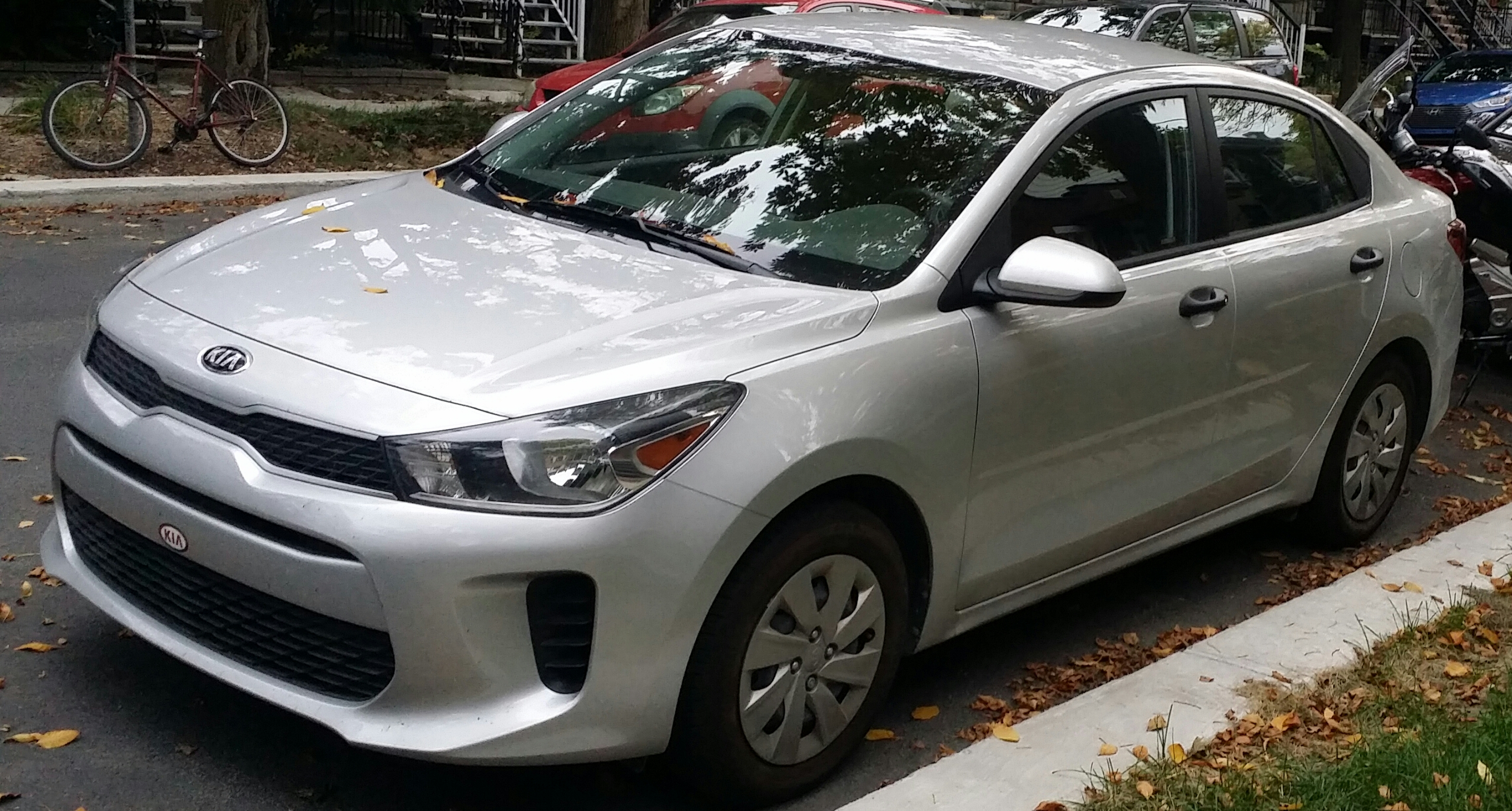 2018 Kia Rio photographed in Montréal, Québec, Canada.